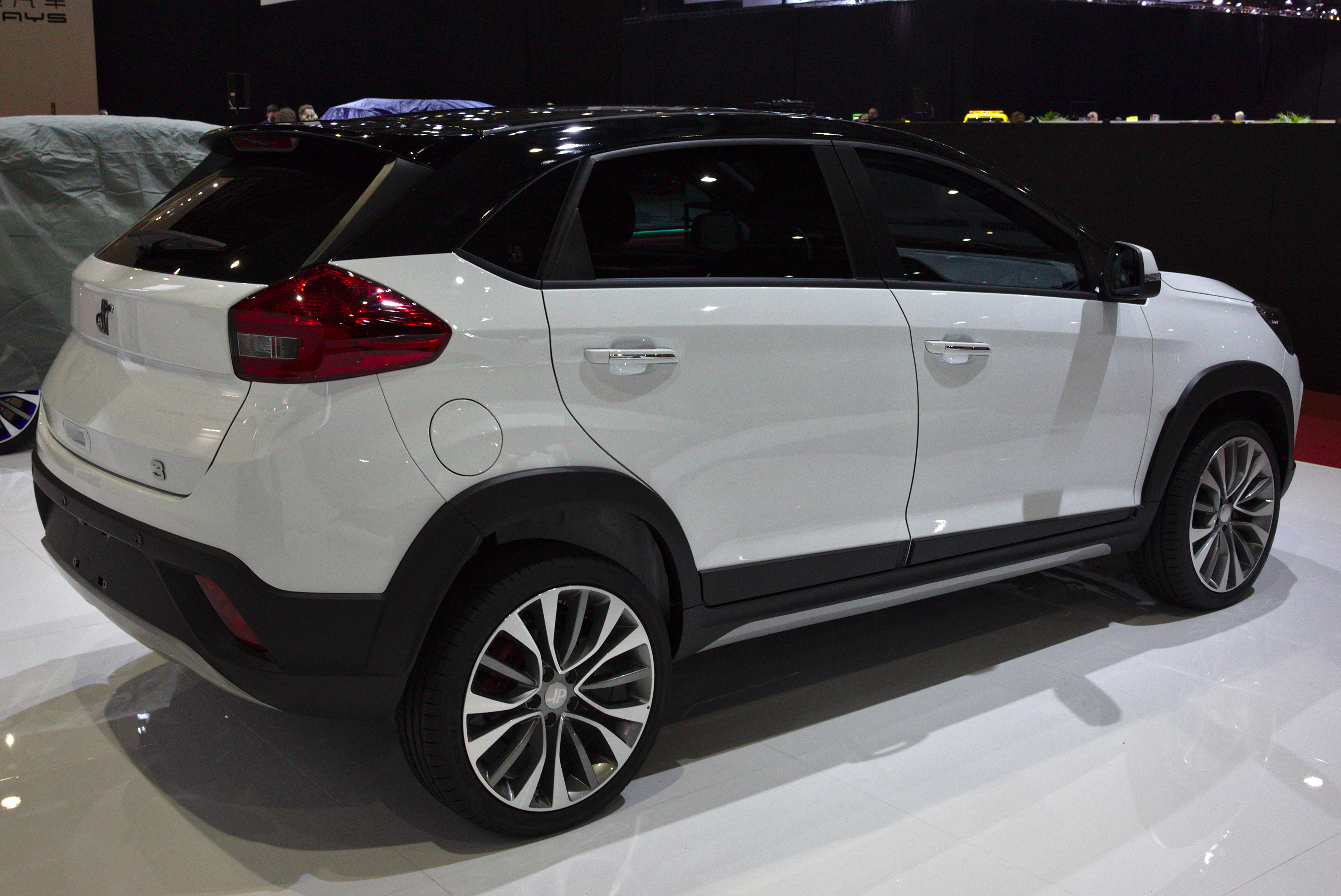 DR3 at Geneva Motor Show 2019